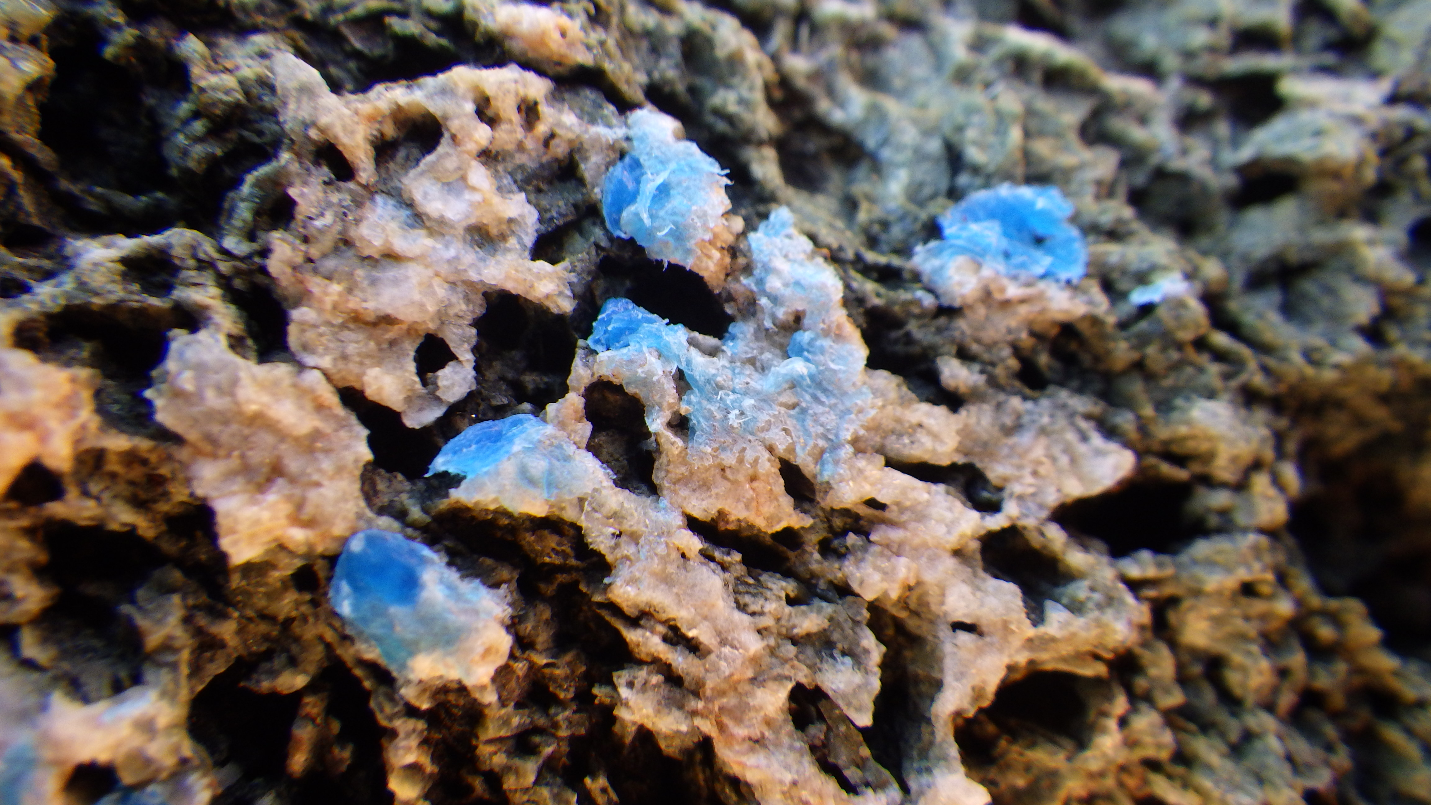 This picture shows a plasticrust detected in Giglio island, Italy on 19 October 2019.